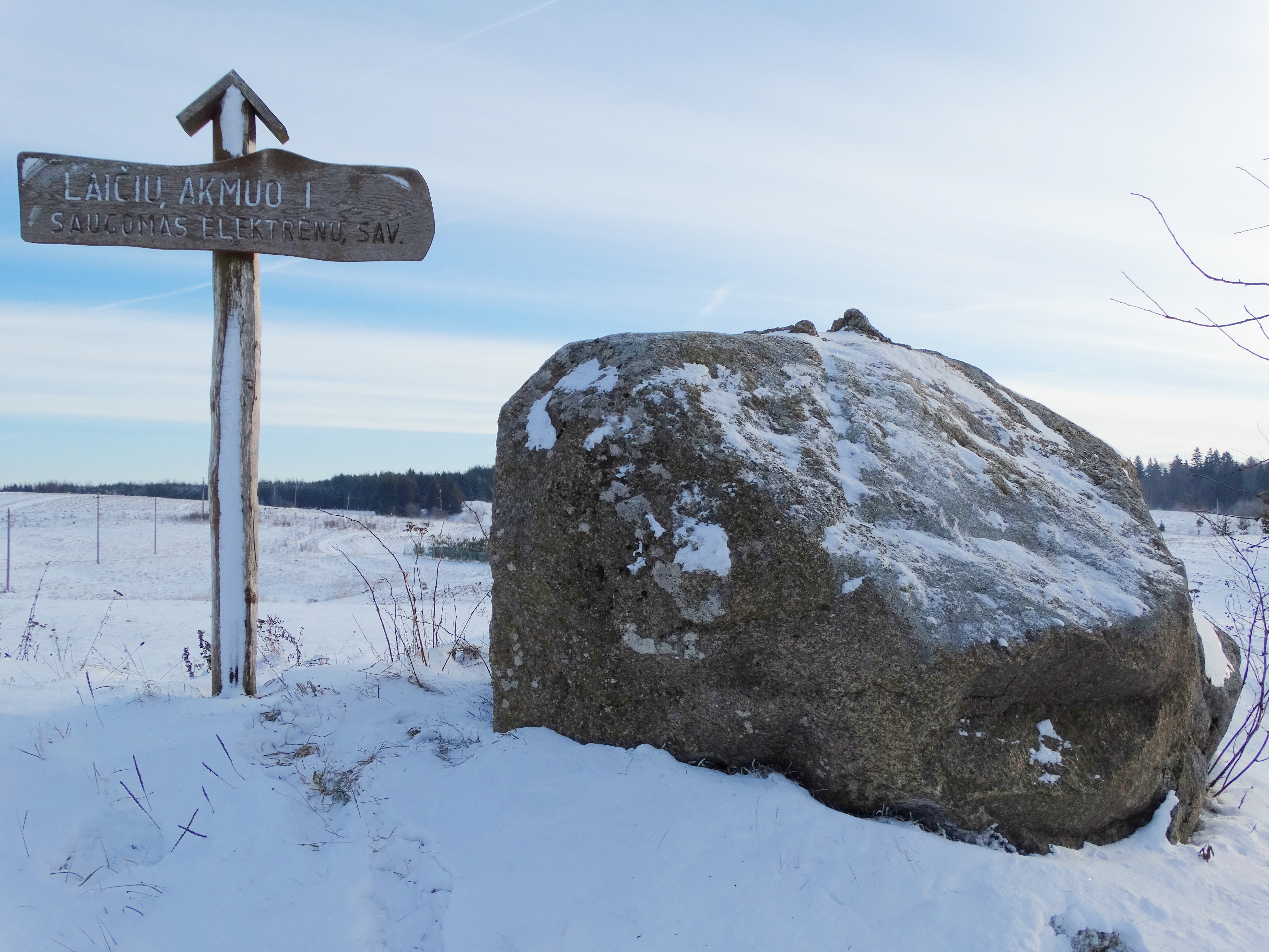 Stone I, Laičiai, Elektrėnai Municipality, Lithuania